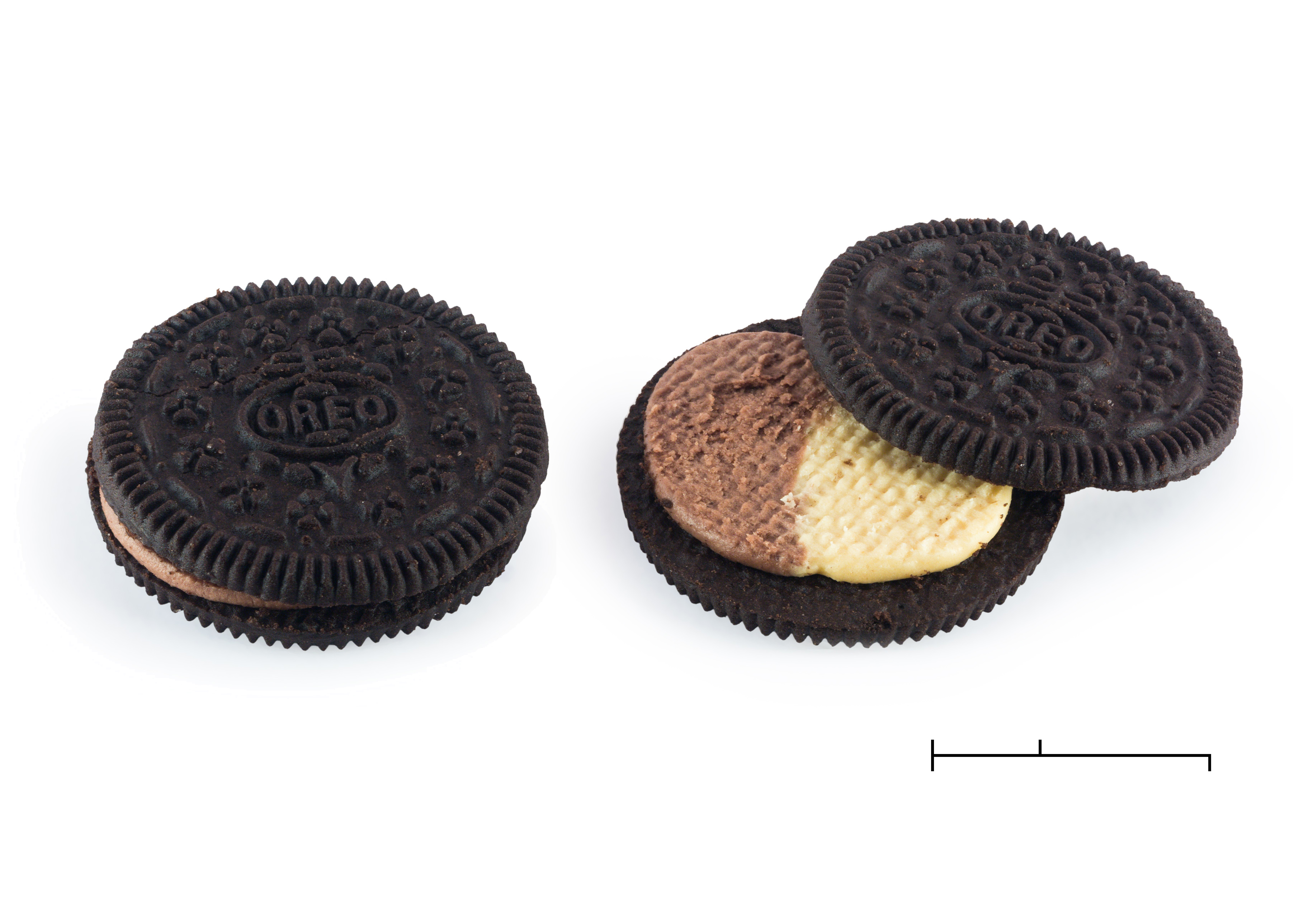 Peanut butter and chocolate Oreo cookies, 2015-06-06. Scale shows 1cm (top) and 1 inch (bottom)